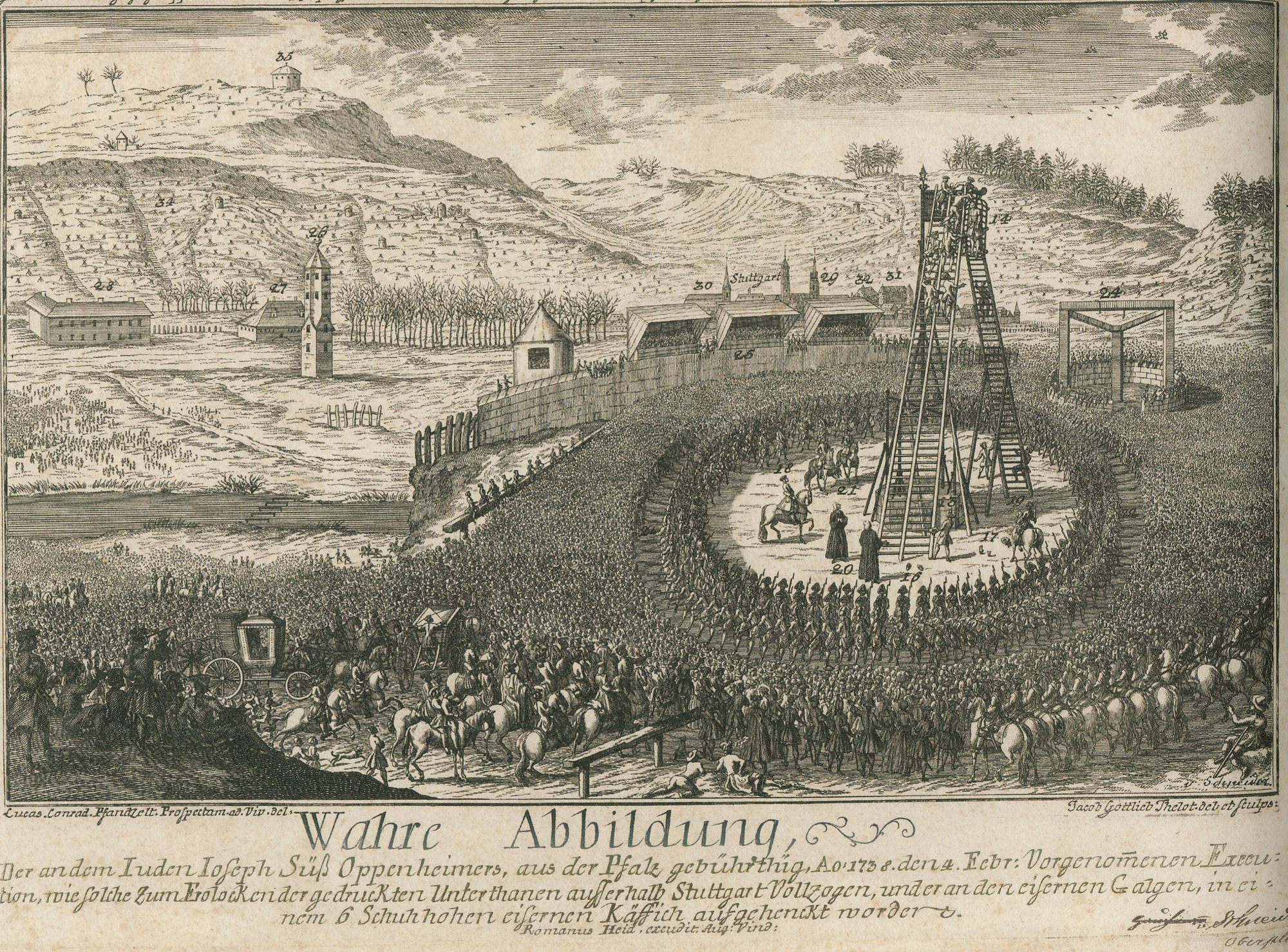 The execution of Joseph Süß Oppenheimer on February 4th, 1738 in front of the Stuttgart city gates. Wahre Abbildung der an dem Iuden Ioseph Süß Oppenheimers, aus der Pfalz gebürthig, anno 1738, den 4. Februar, vorgenommenen Execution, wie solche zum Frolocken der gedruckten Unterthanen ausserhalb Stuttgart vollzogen, und er an den eisernen Galgen, in einem 6 Schuh hohen eisernen Käffich aufgehenckt worden. Romanus Heid, excudit Augusta Vindelicorum [Druck: Romanus Heid, Augsburg] Lucas Conrad Pfandzelt prospectum ad vivum delineavit [Zeichnung von Lucas Conrad Pfandzelt nach der wirklichen Ansicht] Jacob Gottlieb Thelot delineavit et sculpsit [Zeichnung und Kupferstich: Jacob Gottlieb Thelot] 1. Porträt Joseph Süß in seinem guten Stand; 2. Eben dasselbe an seinem Gerichts Tag; 3. Der Iud auf dem Schinder-Karren; 4. Ein Schinder Knecht welcher ihm einen Becher mit Wein gibt; 5. Die den Maliscanten begleitende Escorte; 6. Herrn-Hauß; 7. Rath-Hauß; 8. Sonnen-Wirthshauß; 9. Apotheke; 10. Röhrbrun; 11. Hölzerner Esel; 12. Schnapsgalgen; 13. Der eisserne Galgen; 14. Der Iud wie er in den oberen Haggen des annoch offnen und zwischen die Leitern rückwärts gebundnen Käfficht aufgehenckt wird; 15. Große doppelte Leiter von 48 Sprossen; 16. Die dem Iuden ausgezogene Schuhe; 17. Paruque sodem Iuden auf der Leiter heruntergefallen; 18. H. Licentiat Groß Expeditions-Rath und Statt-Vogt; 19. Comandierenter H. Mayor Schulze; 20. Beyde H. Geistliche; 21. Commandirte Bürgerliche Officiers; 22. 5. Compagnien so den Cräis gemacht; 23. 18 Mann comandierte Bürgerliche Reuter; 24. Ordinary hölzerne Galgen; 25. Logen so vor Cavalliers und Dames aufgebaut worden; 26. Wasser-Thurm; 27. Andraeen Hauß; 28. Bad; 29. Stifts Kirchen; 30. St. Leonhart; 31. Schloss; 32. Der Neue-Bau; 33. Mailefitz Glögle; 34. Die Weinberg; 35. Wachhaus